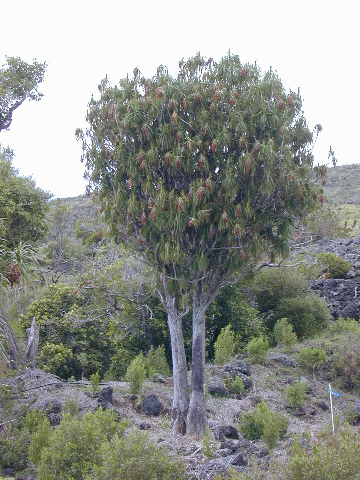 Pleomele auwahiensis (habit with fruit). Location: Maui, Auwahi syn: Dracaena auwahiensis